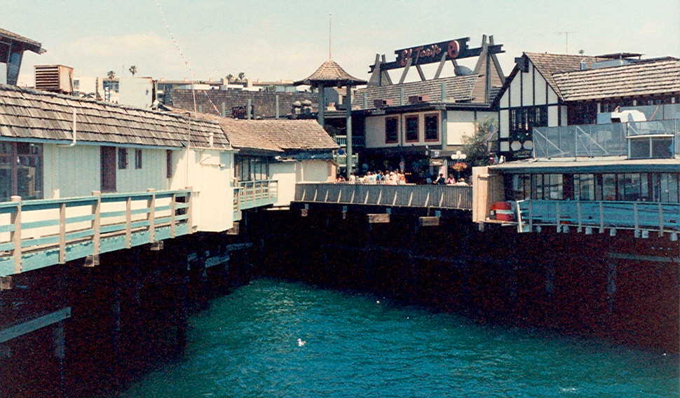 Pier in Redondo Beach, California. Photo by Gyrofrog, July 1991.